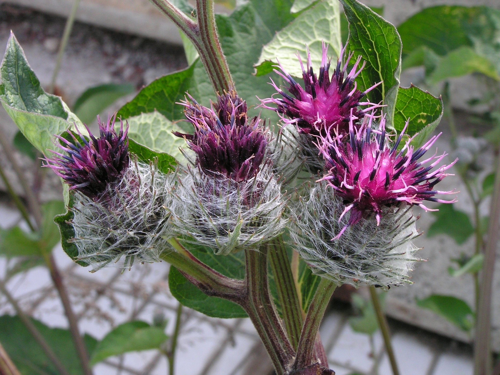 Inflorescences of Woolly burdock. Moscow region, Russia.